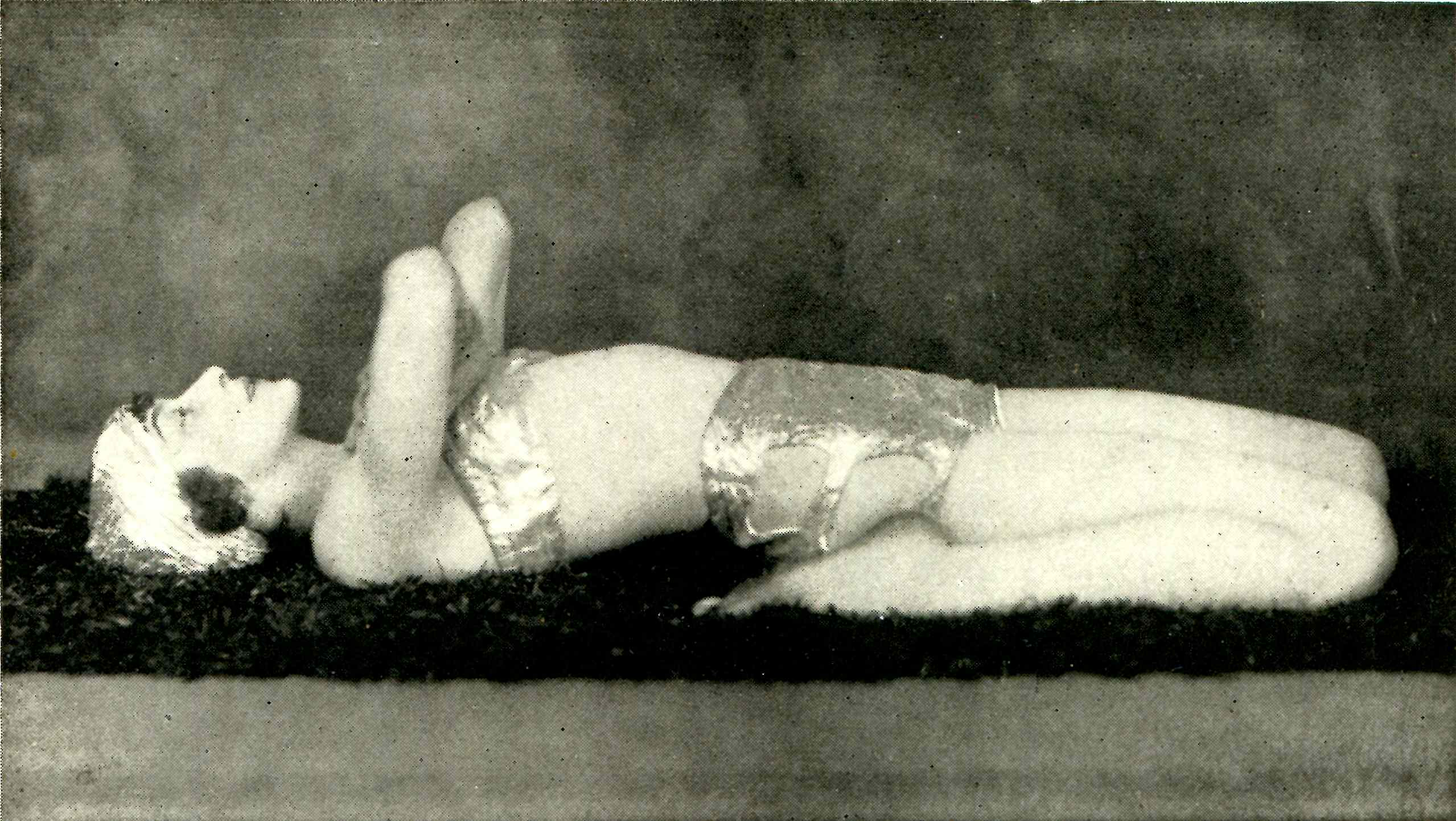 Marguerite Agniel demonstrating "A good exercise for the back and abdominal muscles" in her 1931 book The Art of the Body. Photograph by John de Mirjian